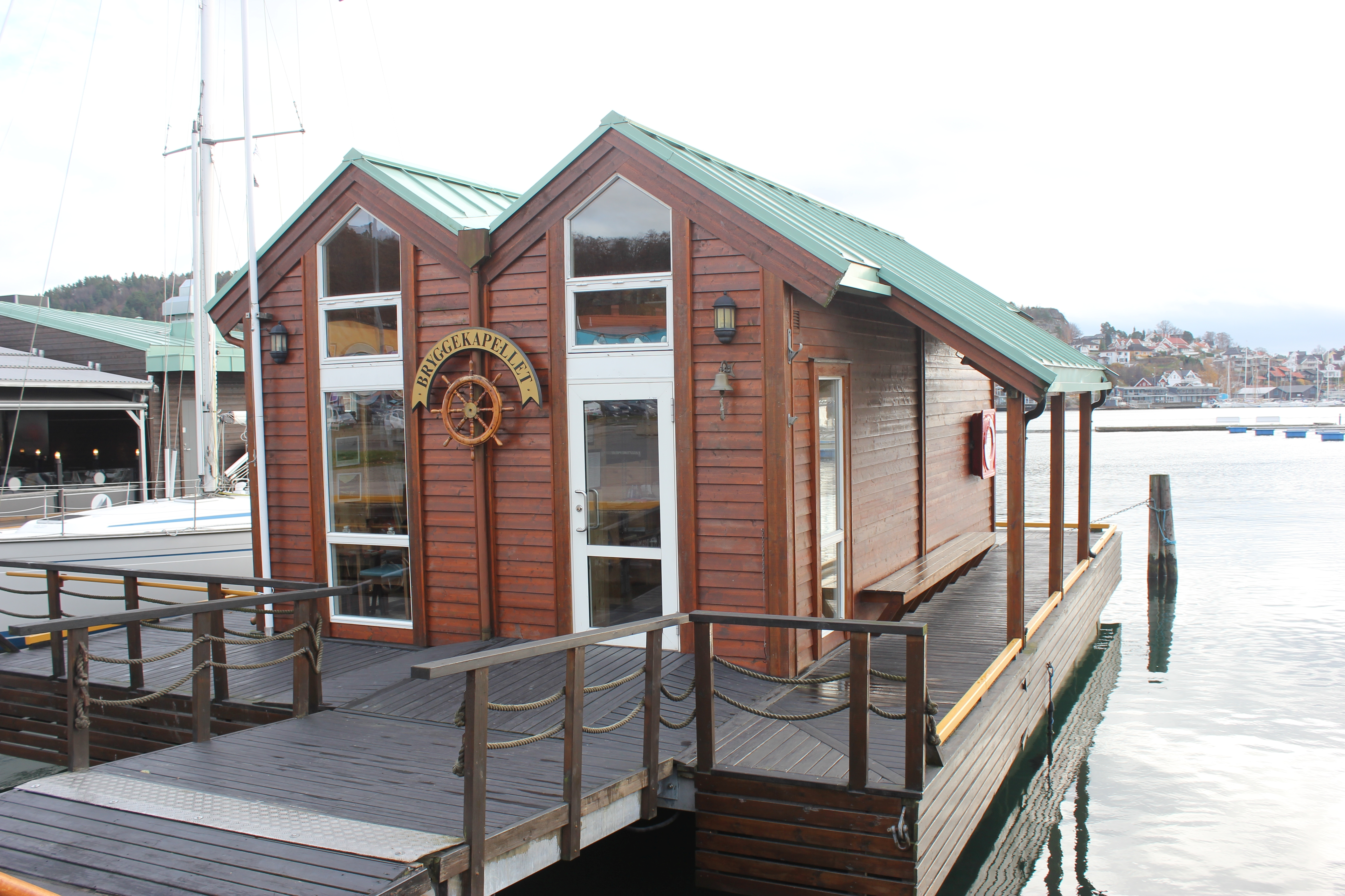 Sandefjord - Bridge Chapel